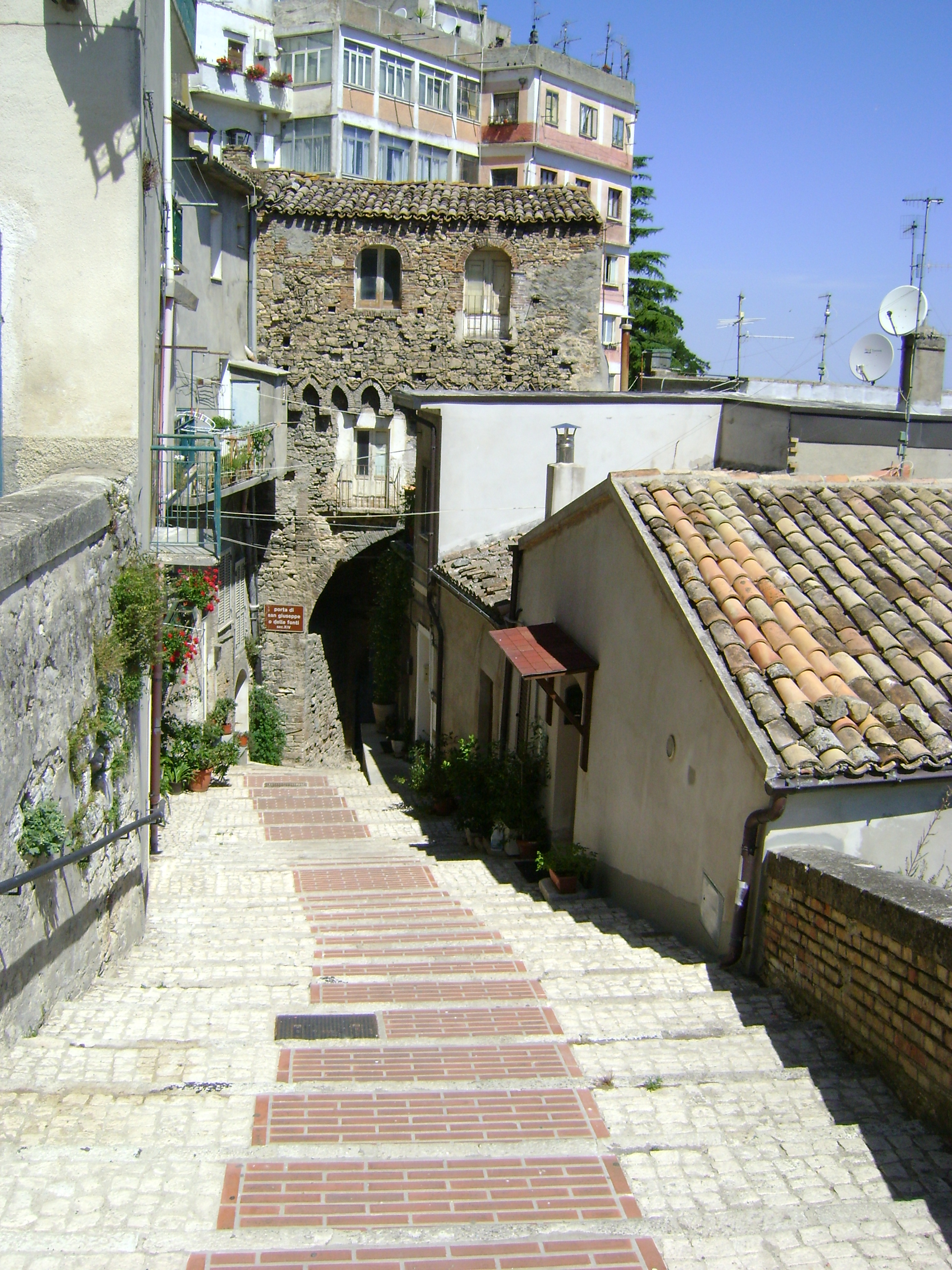 Via Fontane Vecchie in Atessa, in the province of Chieti, Abruzzo